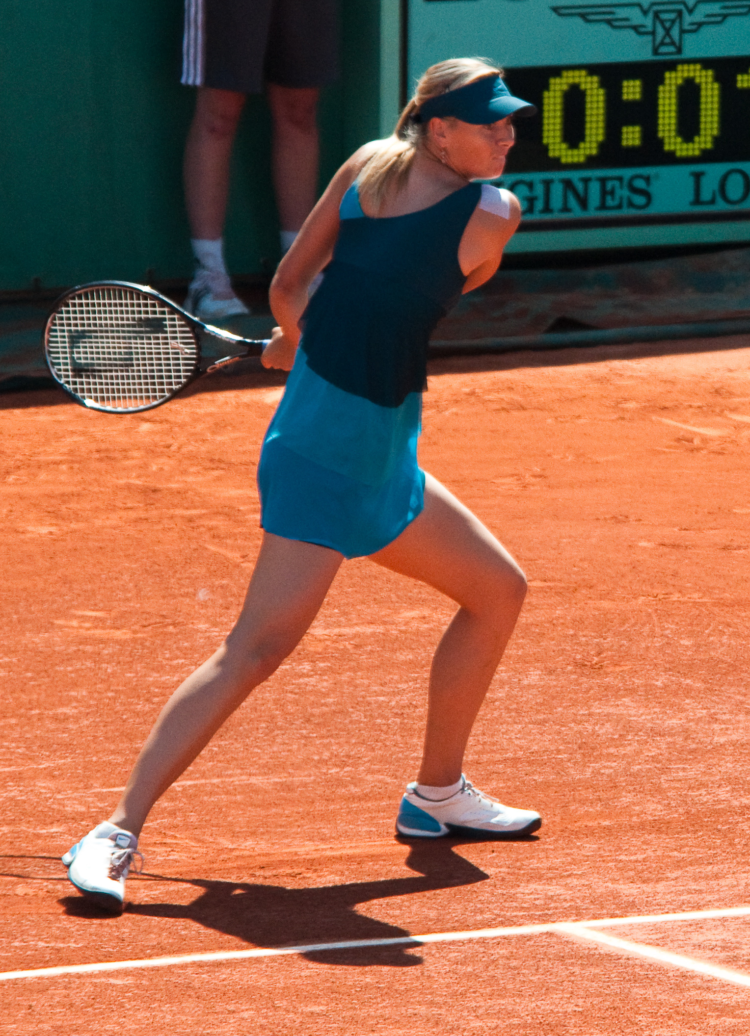 Maria Sharapova at 2009 Roland Garros, Paris, France